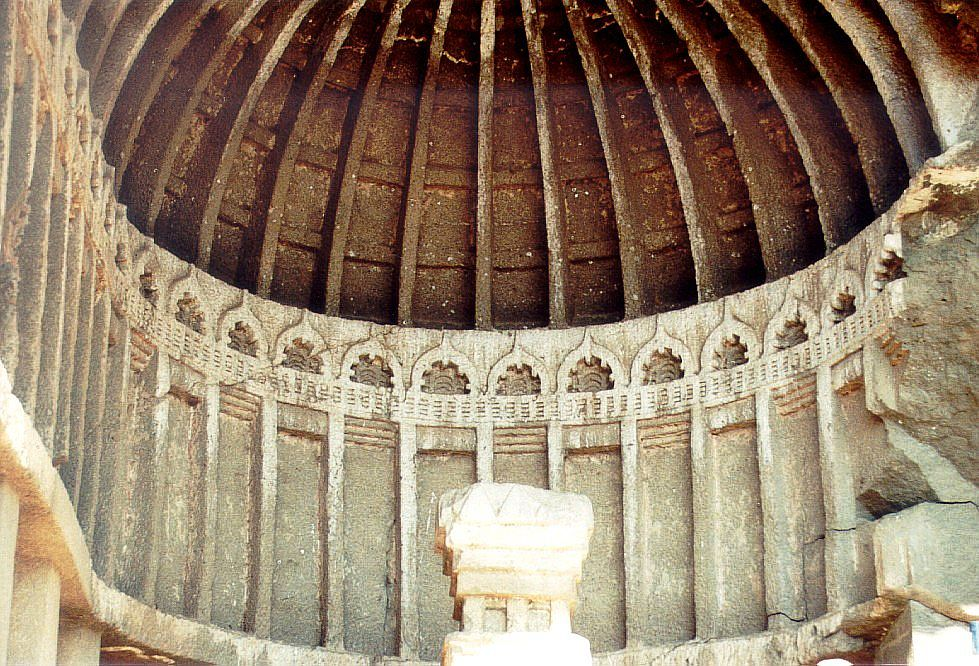 Aurangabad Caves, Maharashtra, India